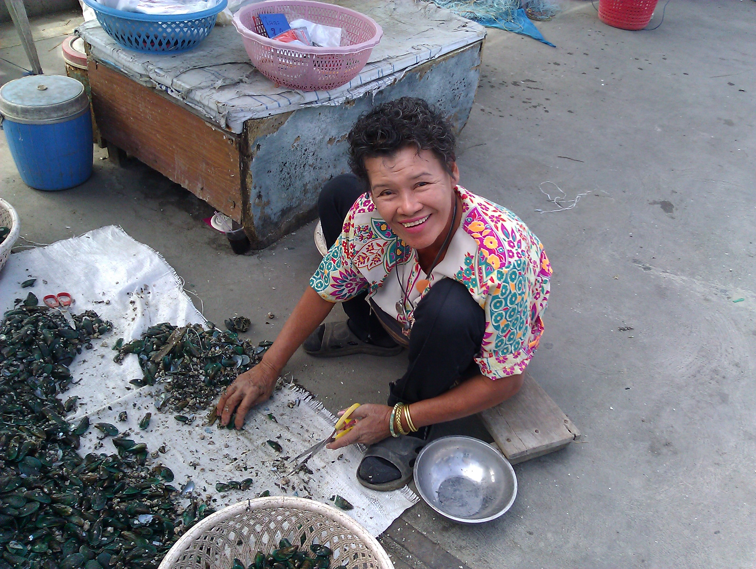 a type of green mussel caught in Chonburi, Thailand. The worker is cutting off the beards and knocking off barnacles with scissors.